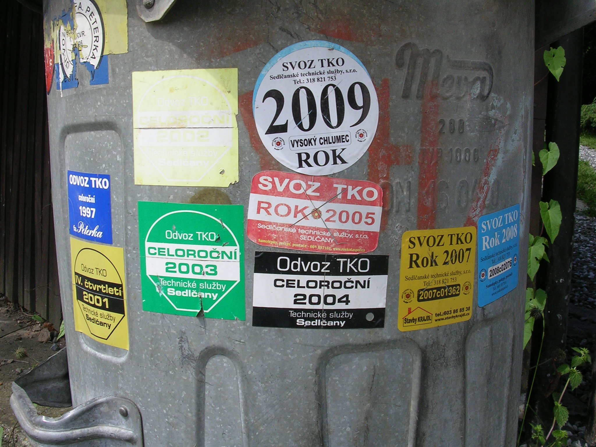 Vysoký Chlumec, Příbram District, Central Bohemian Region, the Czech Republic. Charge coupons at a trash bin.